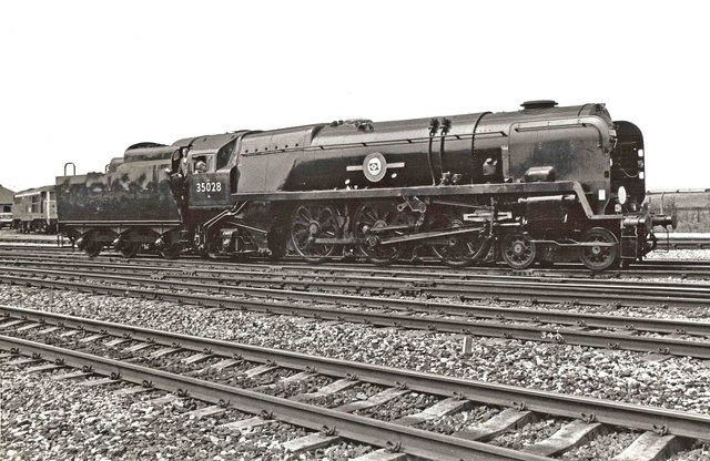 Merchant Navy Class "Clan Line" 35028 reversing at Swindon